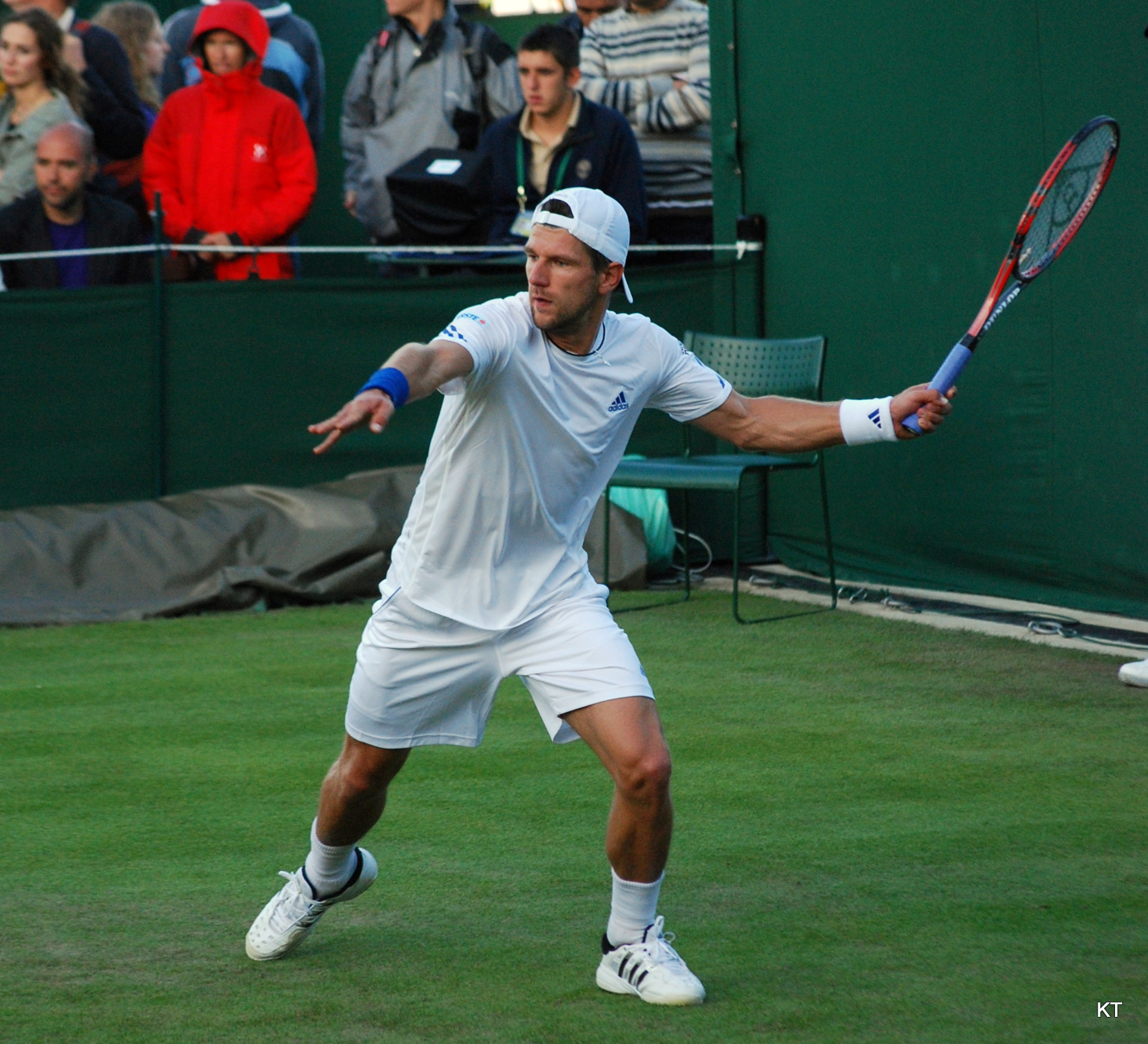 Jürgen Melzer during his first round match with Alejandro Falla. Melzer won 6-3, 3-6, 7-6, 7-6. Day 2 of Wimbledon 2011.